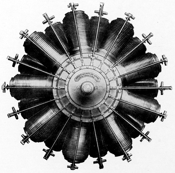 Gnome Delta-Delta (200 hp), as shown in October 1913 Gnome engine catalog.